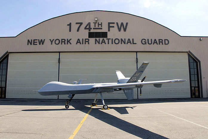 The 174th Fighter Wing, Hancock Field Air National Guard Base, Syracuse, NY shows off it's latest aircraft: The MQ-9 "Reaper". The unit will begin flying Combat Air Patrols with the MQ-9 beginning in November of 2009, while flying out the F-16 Fighting Falcon until March 2010. (U.S. Air Force Photo by Tech. Sgt. Jeremy M. Call/RELEASED)